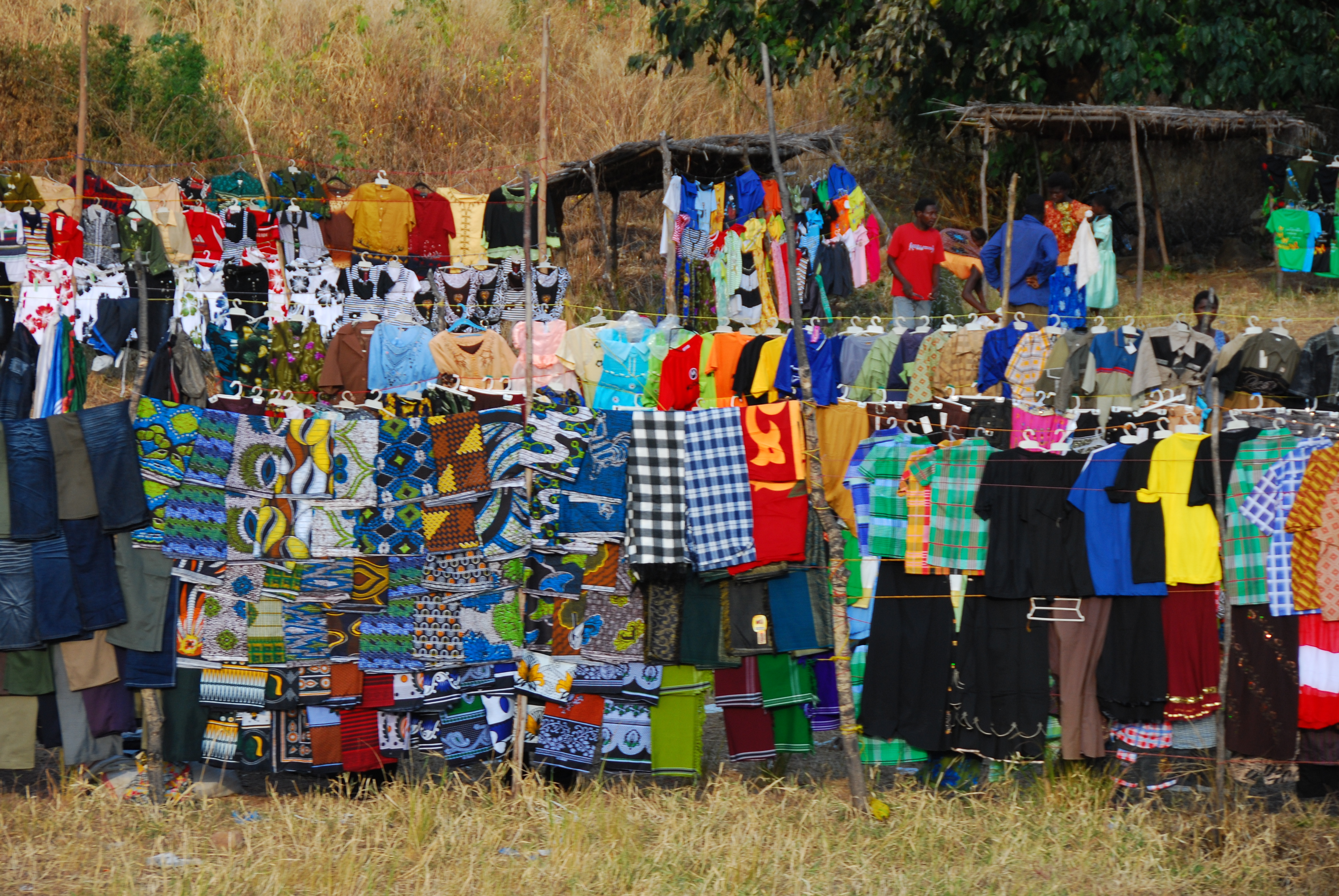 Local Fabric and Clothes market